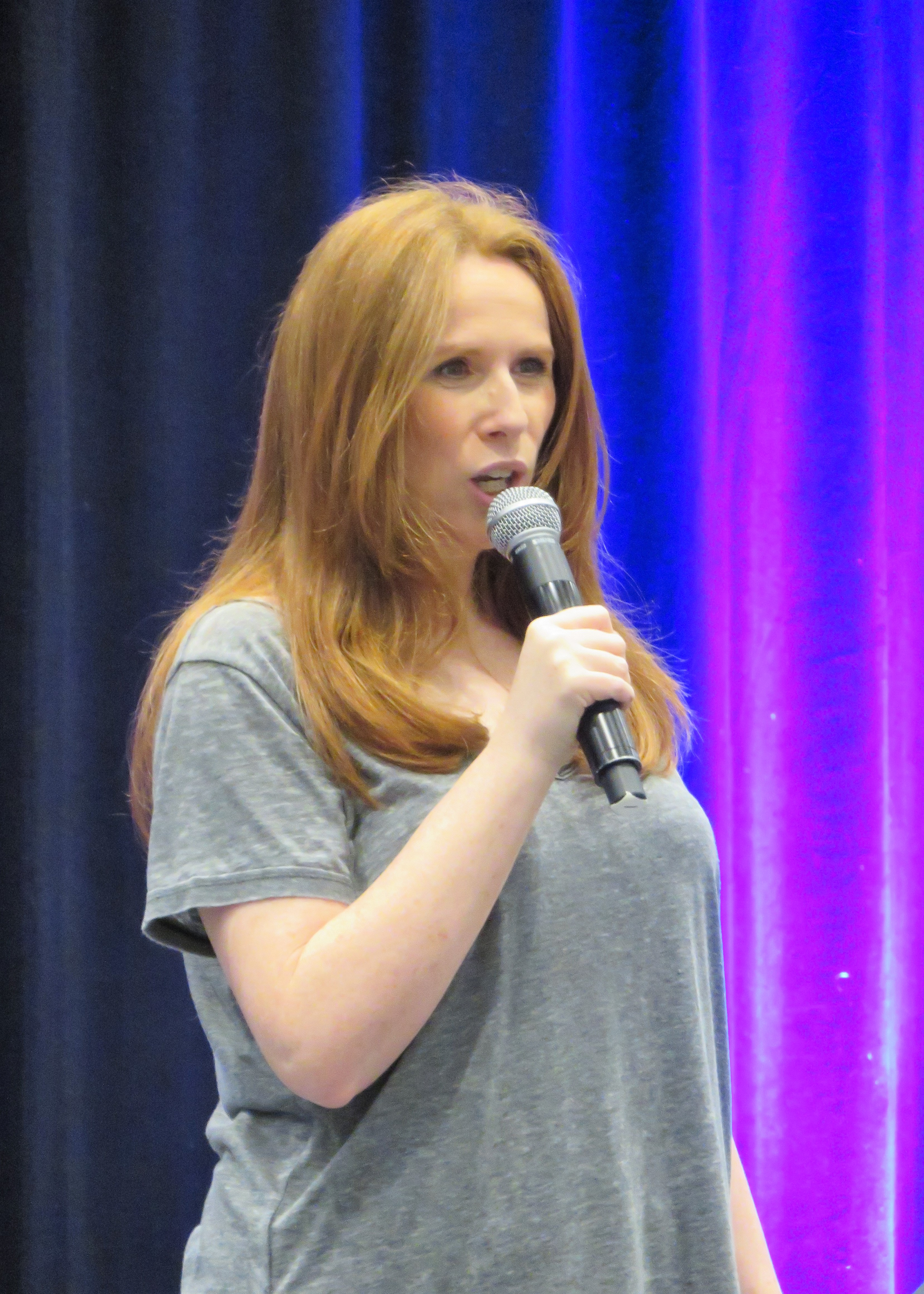 Catherine Tate 02